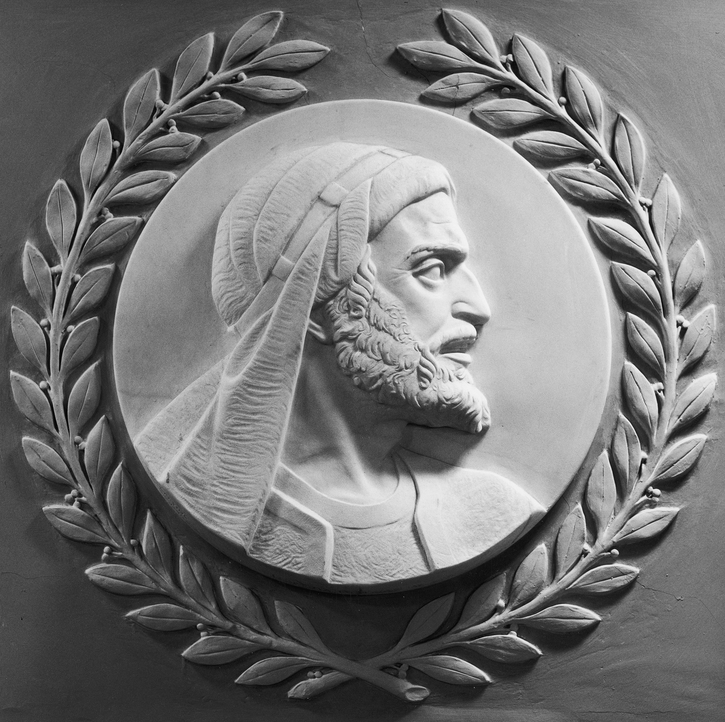 Maimonides marble bas-relief, one of 23 reliefs of great historical lawgivers in the chamber of the U.S. House of Representatives in the United States Capitol. Sculpted by Brenda Putnam in 1950. Diameter 28 inches.